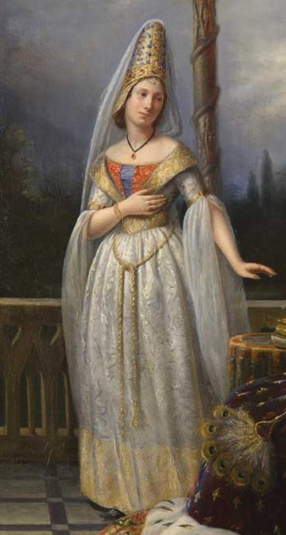 Portrait of Odette de Champdivers, by Anna Rimbault-Borrel (detail).